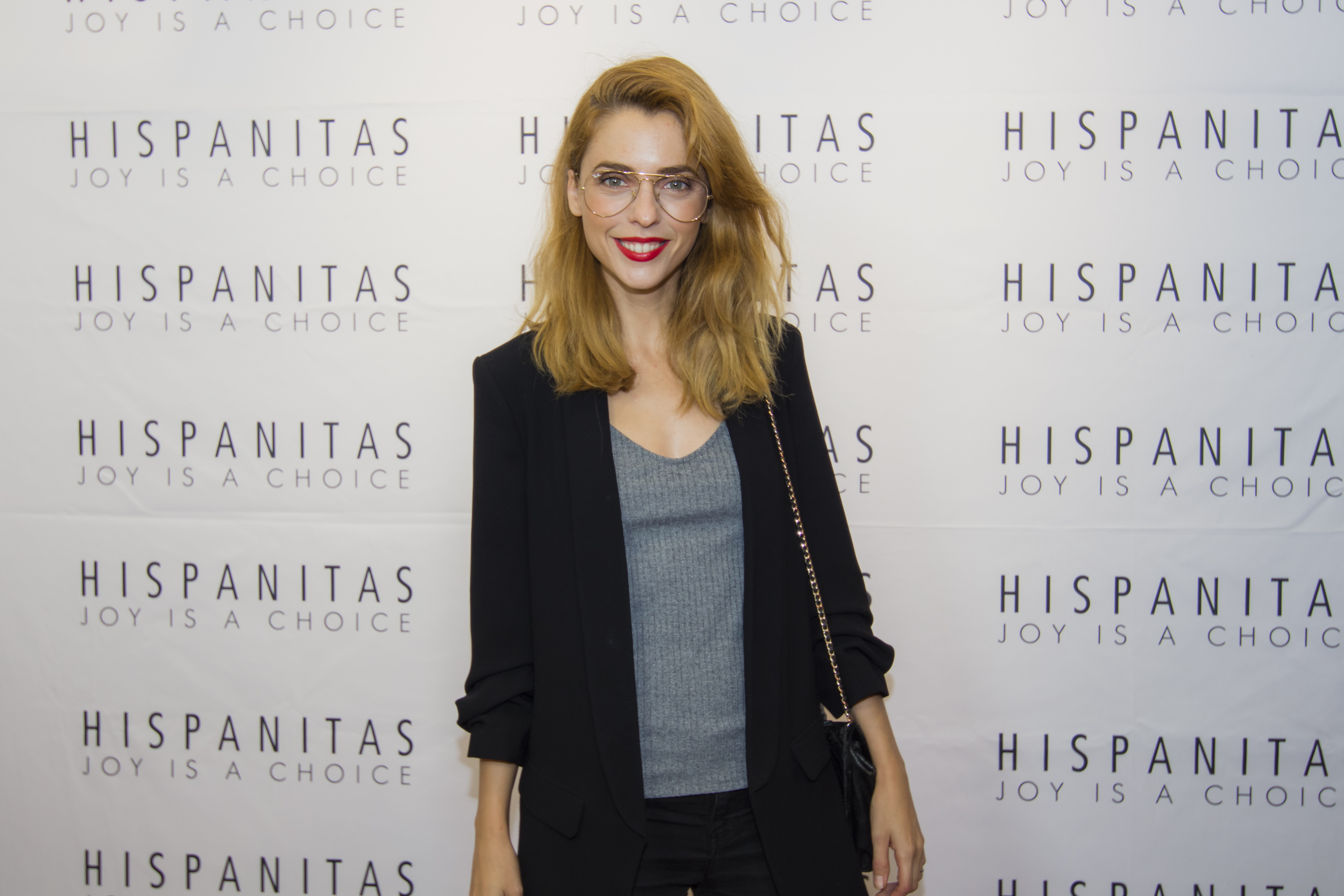 Leticia Dolera.